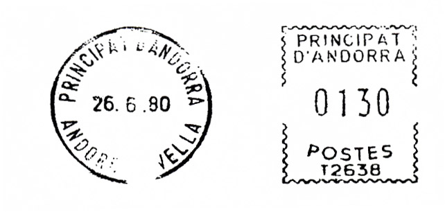 Meter stamp catalog image, Andorra type C5